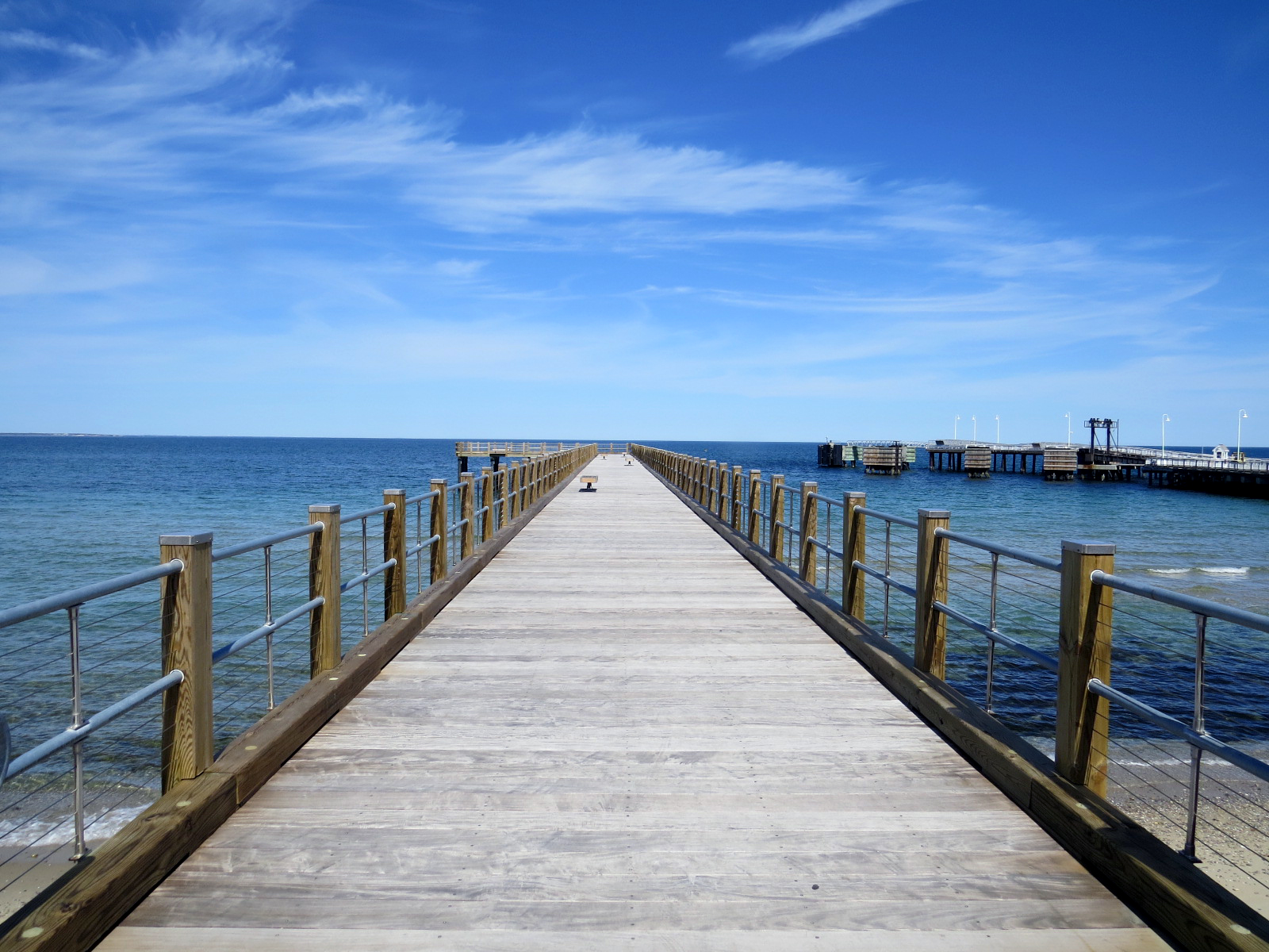 OakBluffs Fishing Pier, Oak Bluffs, Massachusetts